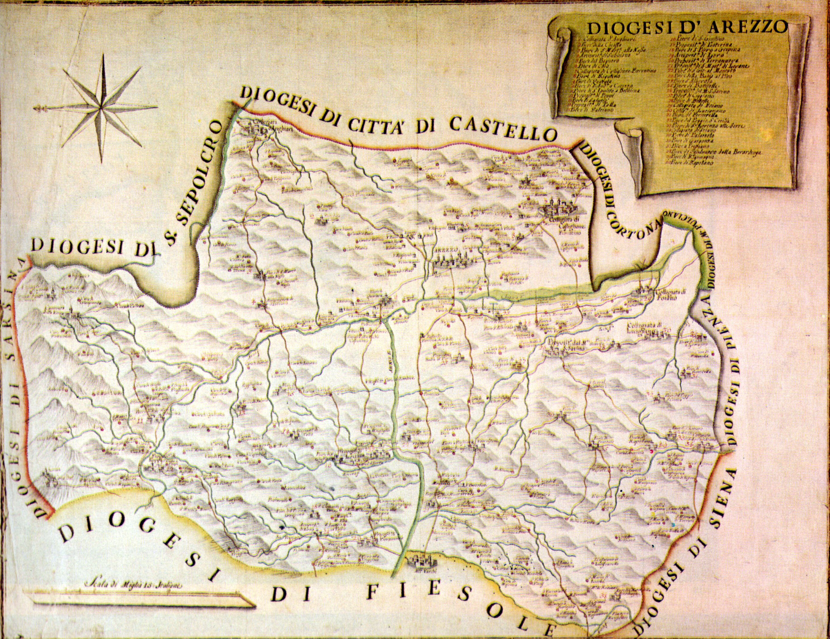 The Diocese of Arezzo and Montevarchi, just out of the diocese southern border, on XVIII century